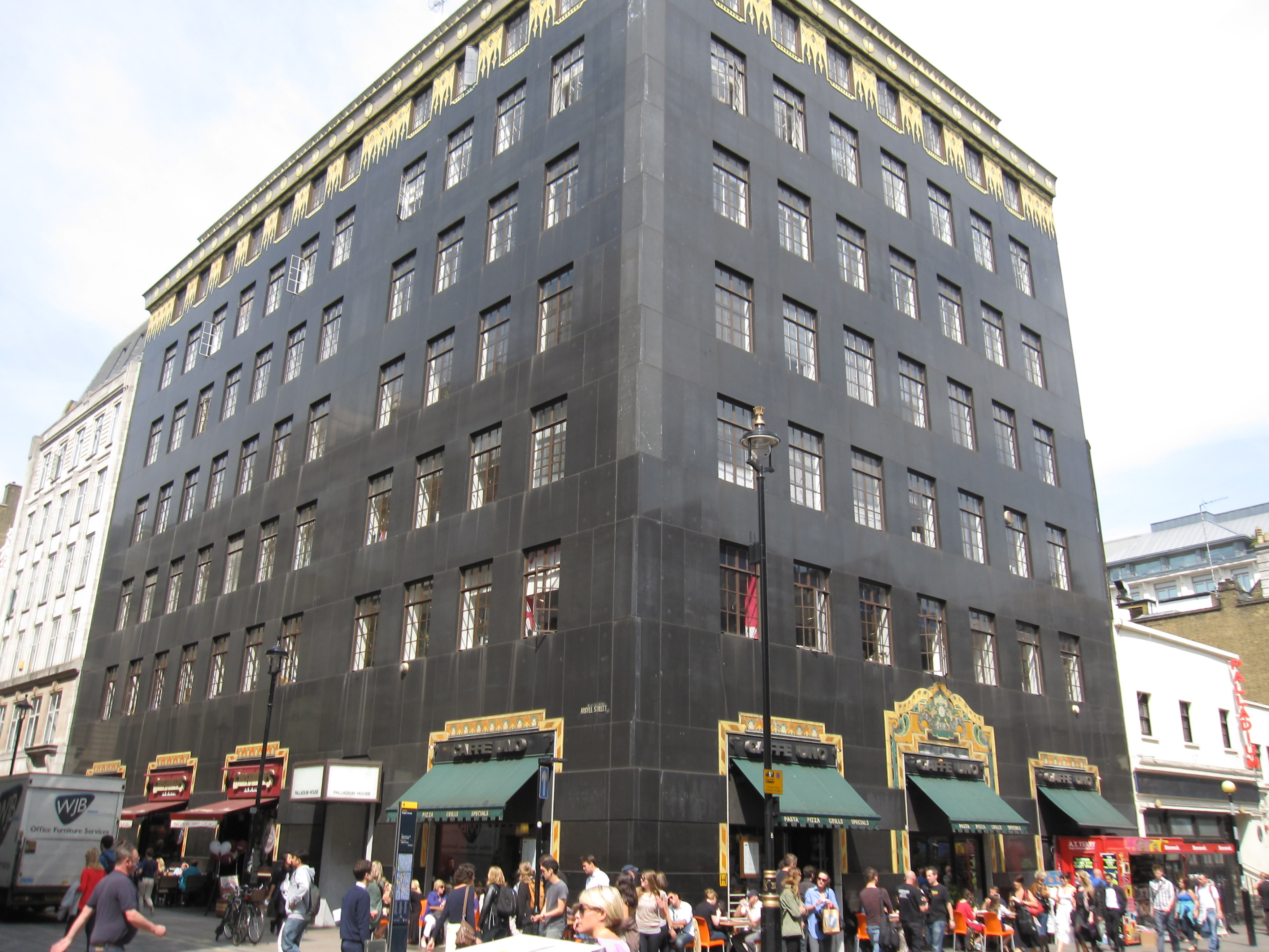 The Ideal House is located on Great Marlborough Street/Argyll Street, London, W1F 7TA. It was constructed in 1928-1929 by the architects Raymond Hood and Gordon Jeeves in the art deco style as the London headquarters of the American National Radiator Company.